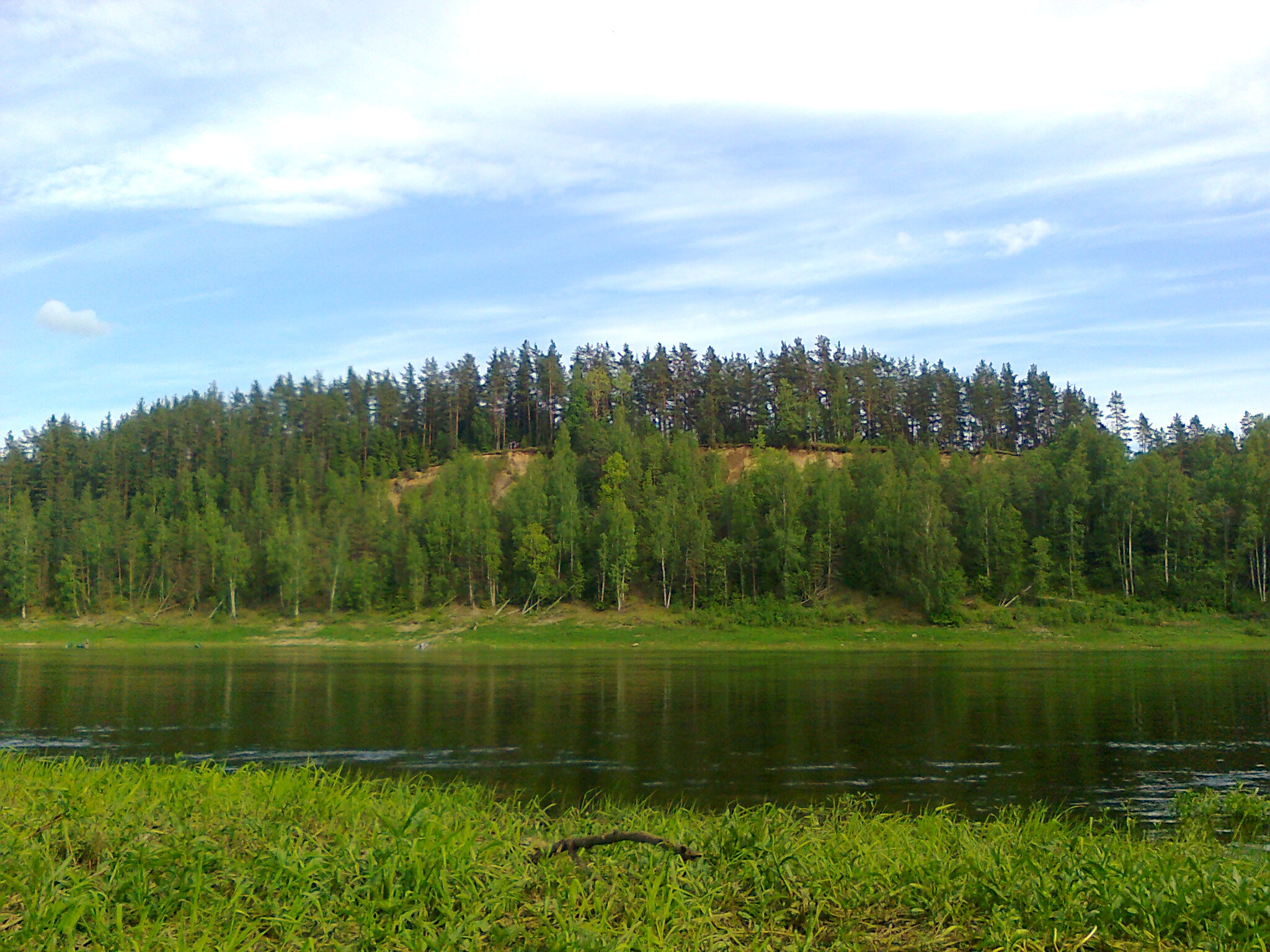 View of the Ververi steep bank (Ververu krauja) from the opposite side of the Daugava River.